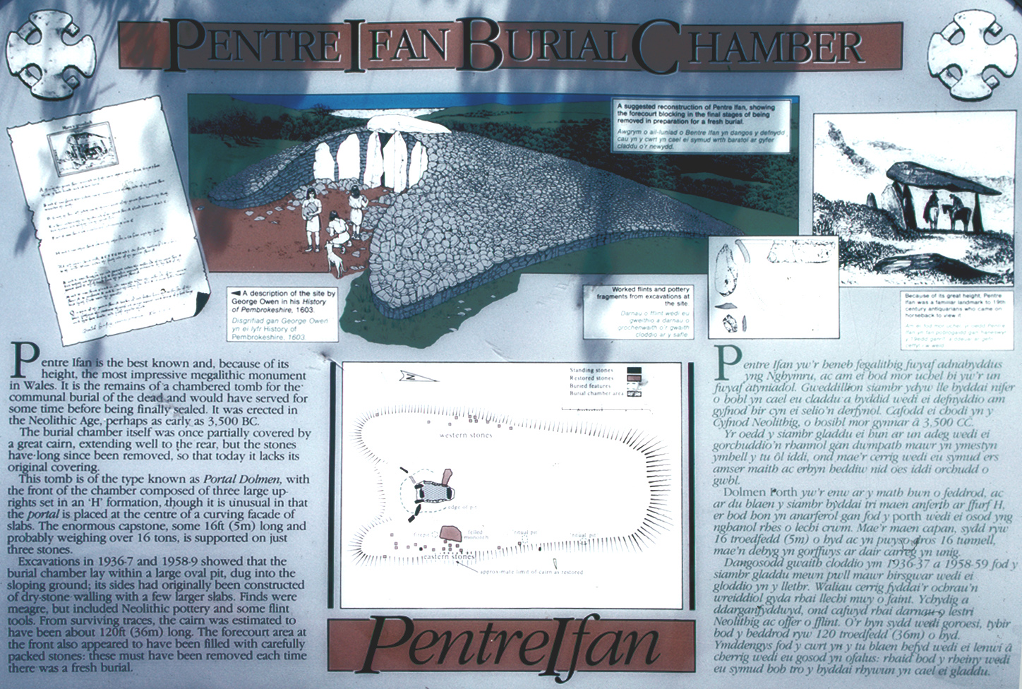 Information panel at Pentre Ifan, the best known megalithic burial chamber in South Wales/GB